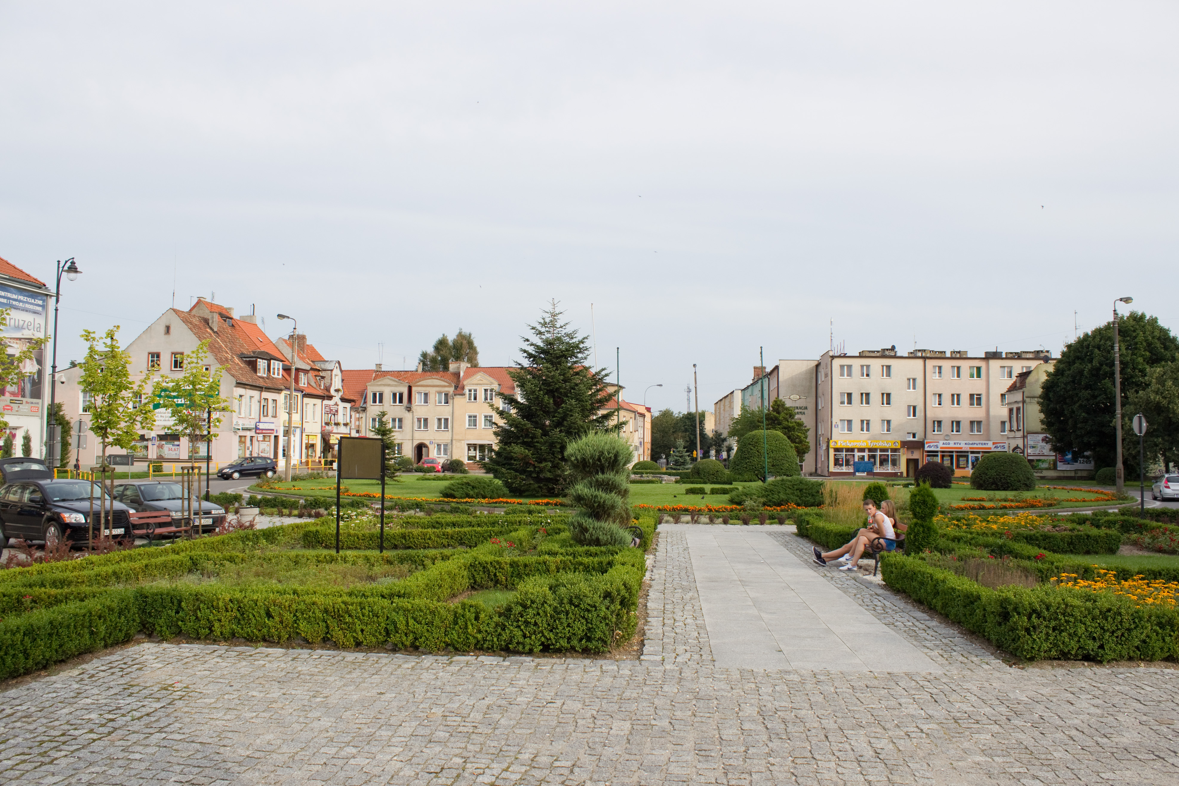 Square, Biskupiec, gmina Biskupiec, powiat olsztyński, Warmian-Masurian Voivodeship